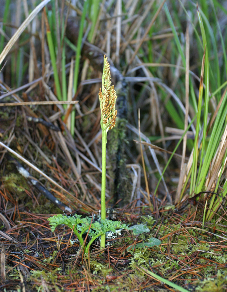 Botrychium multifidum at Humboldt Bay National Wildlife Refuge Complex, California, USA